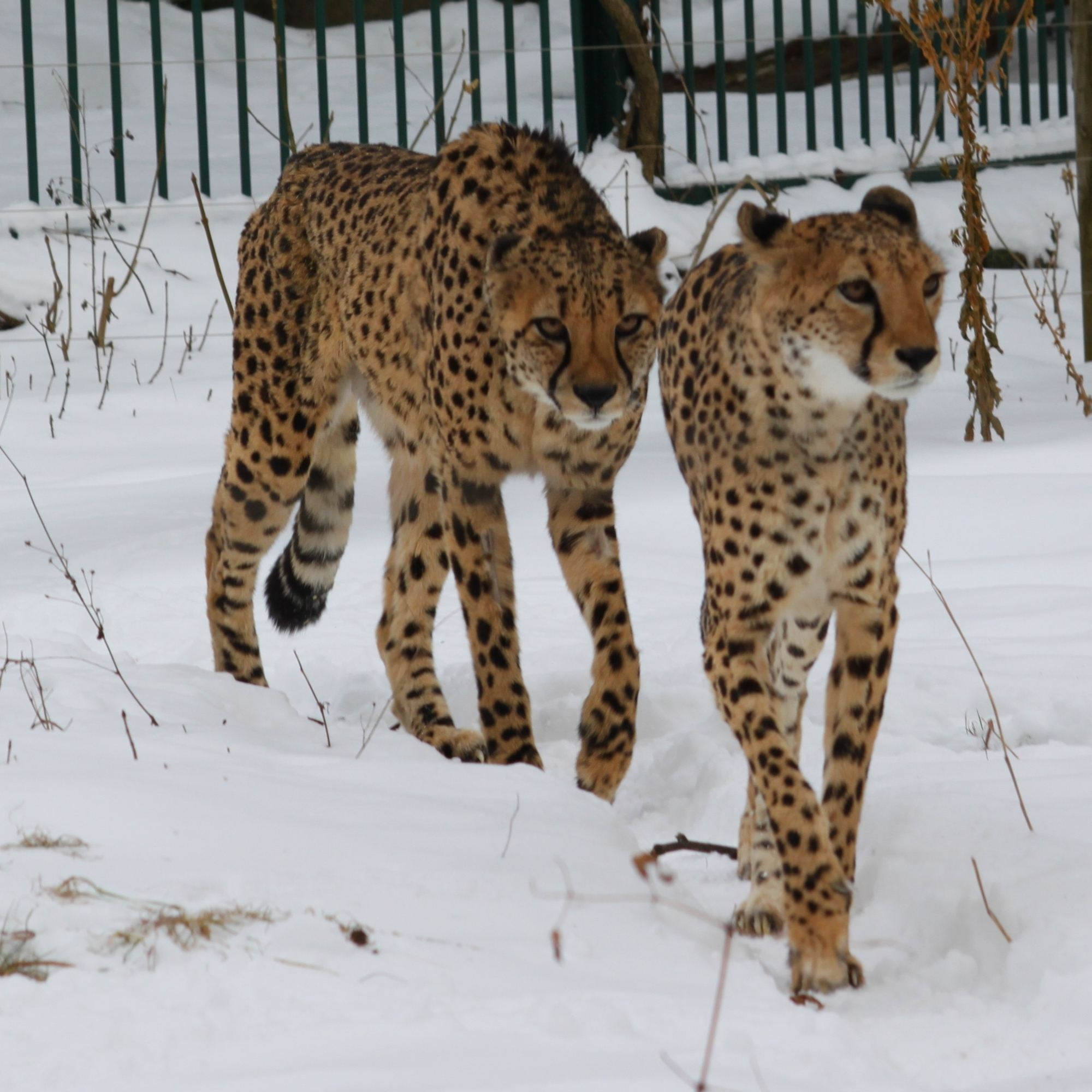 Winter in Schönbrunn - less people, most animals inside, but the cheetahs are much easier to spot than during summer :-)